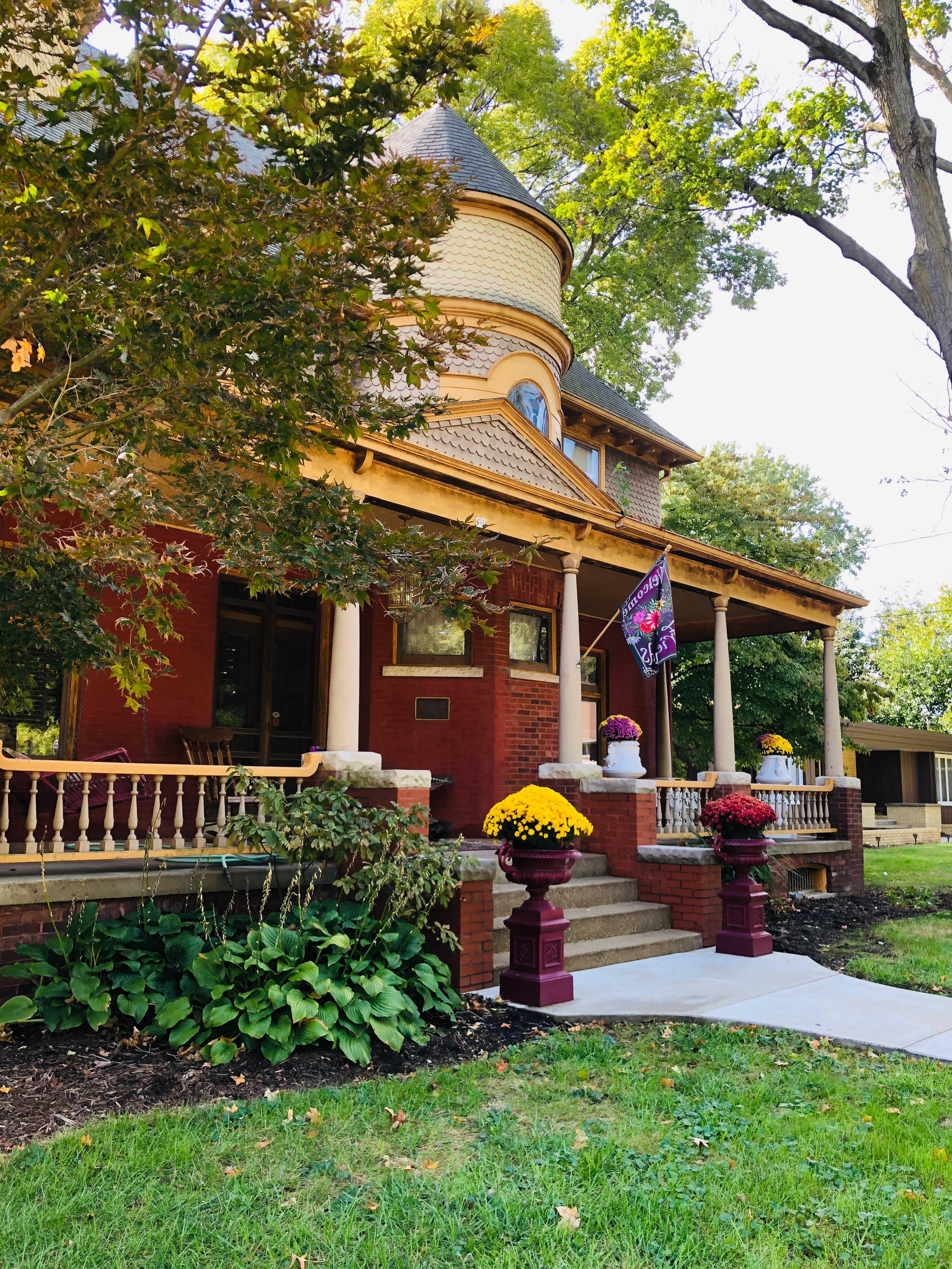 This photo was taken 17 June, 2018